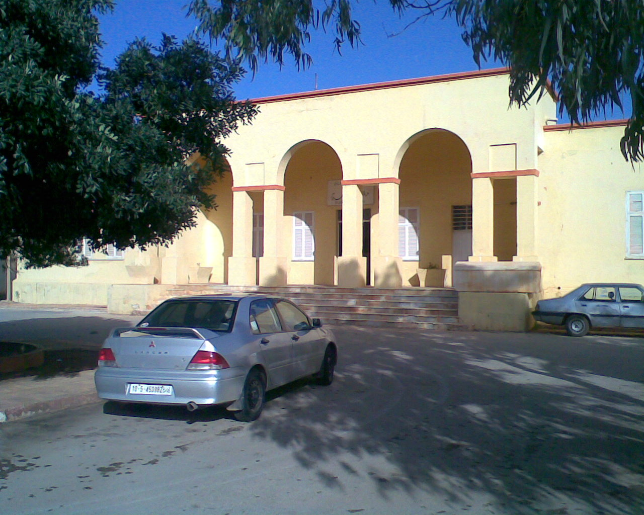 Susah’s archaeological museum.